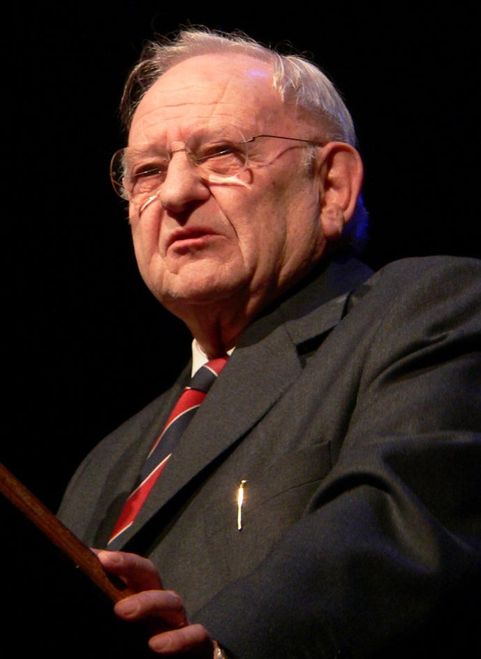 Jef Nys (famous for his comic-series Jommeke) wins the 'Gouden Adhemar', a lifetime achievement award, at the Strip Turnhout-festival